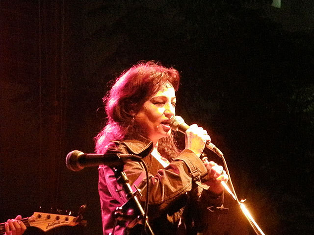 Greek singer Sotiria Leonardou at Babylonmedia's international anti-authoritarian festival "B-Fest" at Athens, Greece, May 2009.